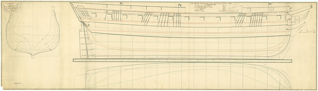 PROSELYTE 1796 lines